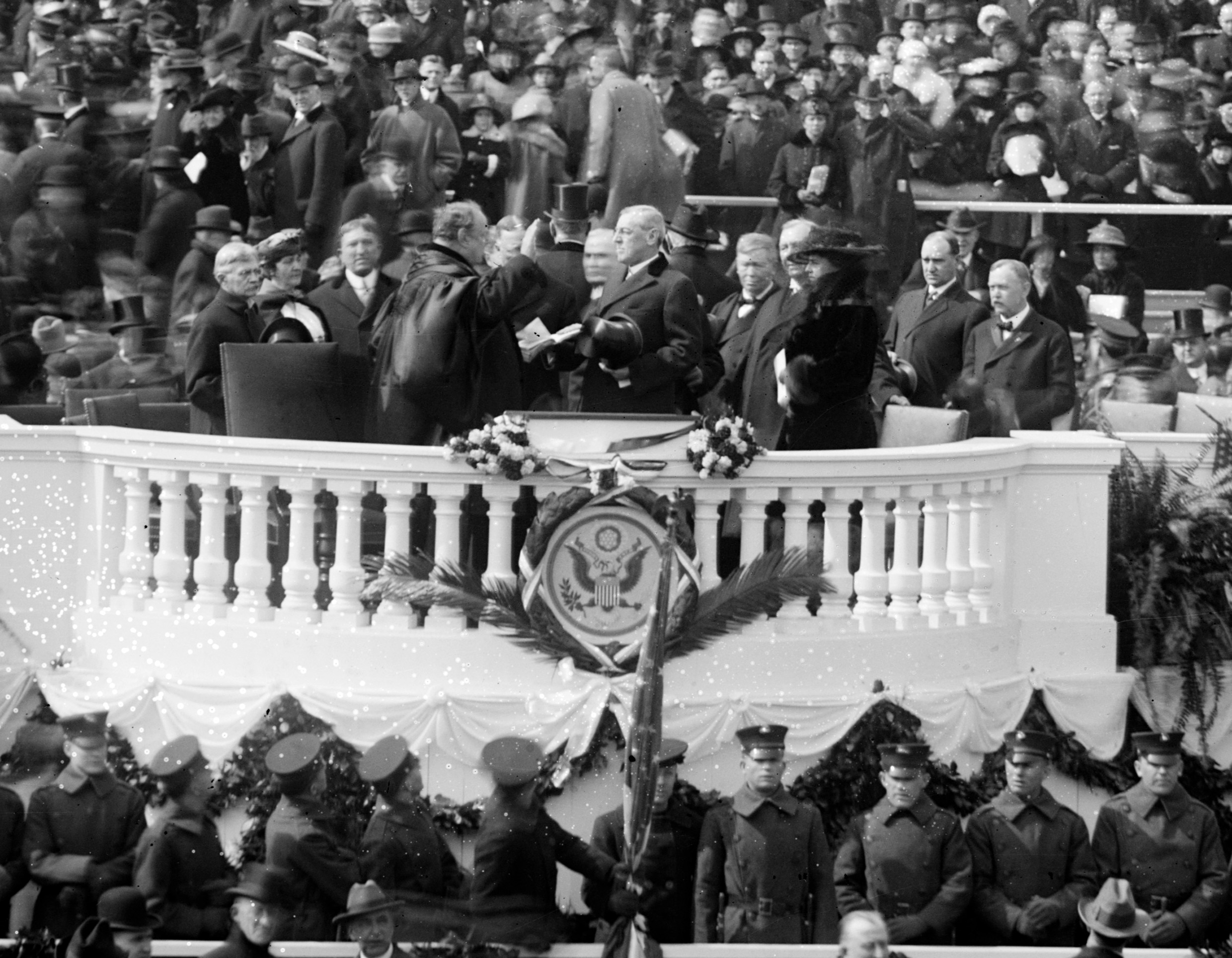 Woodrow Wilson is sworn in to his second term as President of the United States by Chief Justice Edward Douglass White.